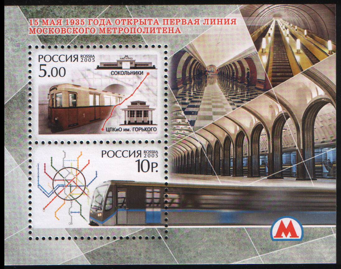 Stamps of Russia. The 70th anniversary of the first line of Moscow metropolitan, 2005